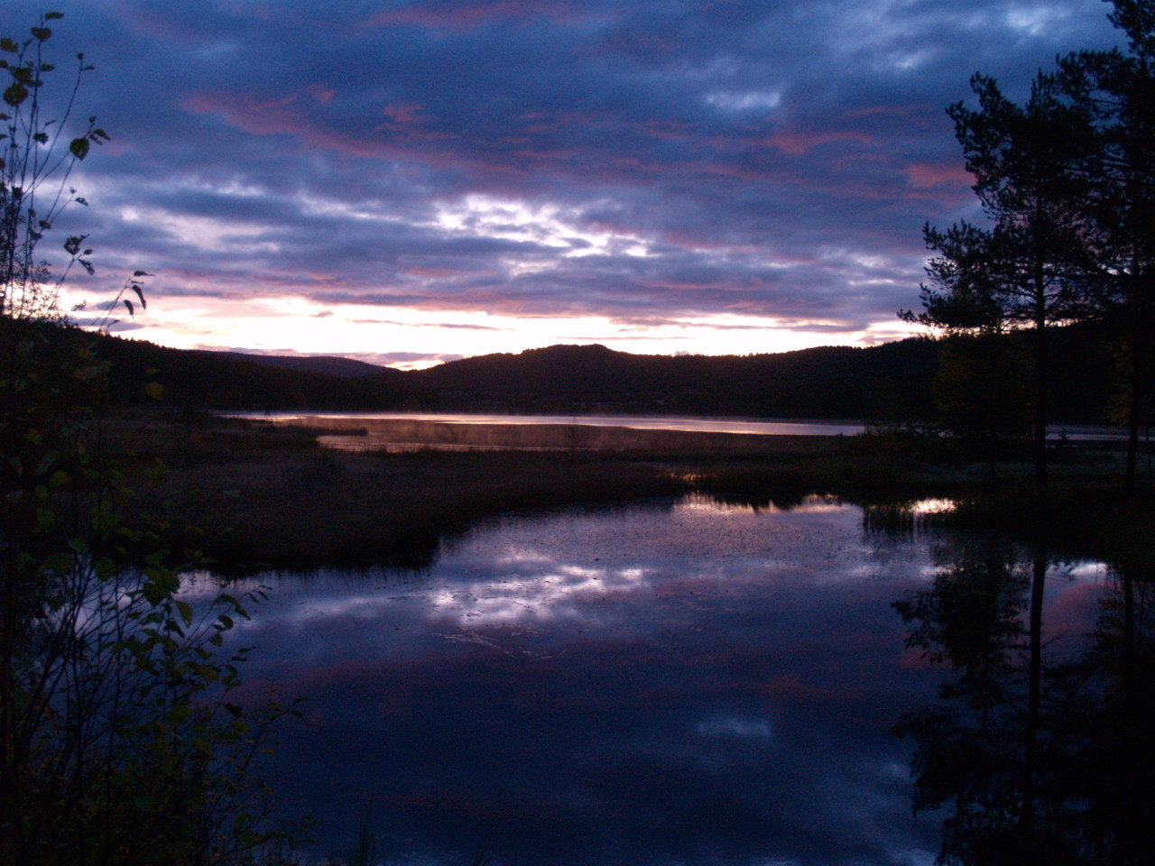 Kjemsjøen